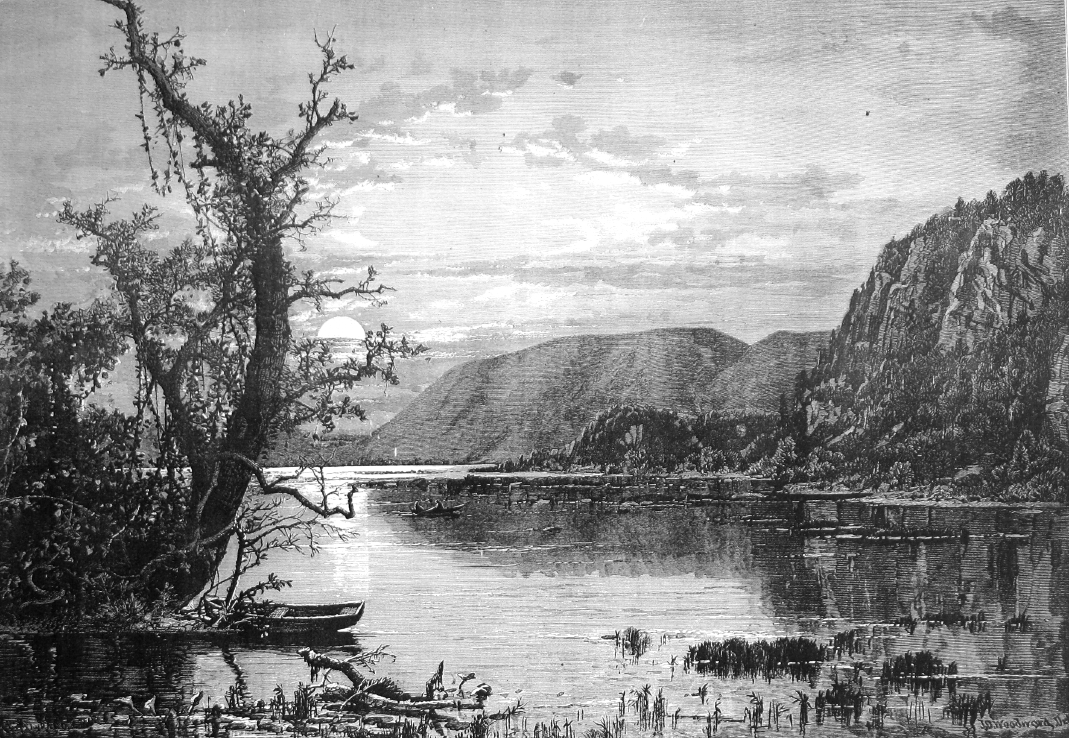 Engraving entitled "Moonlight on the Shenandoah", by J. D. Woodward, printed in The Aldine Magazine, Vol. VI No. 7, July 1873